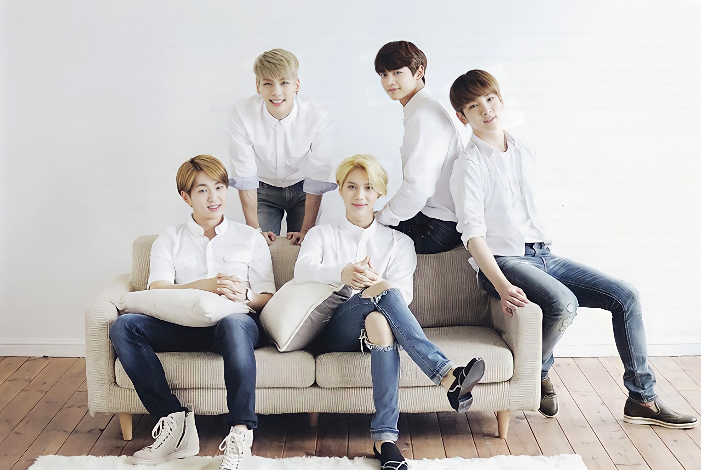 SHINee in photoshoot for the album I'm Your Boy in September 2014.